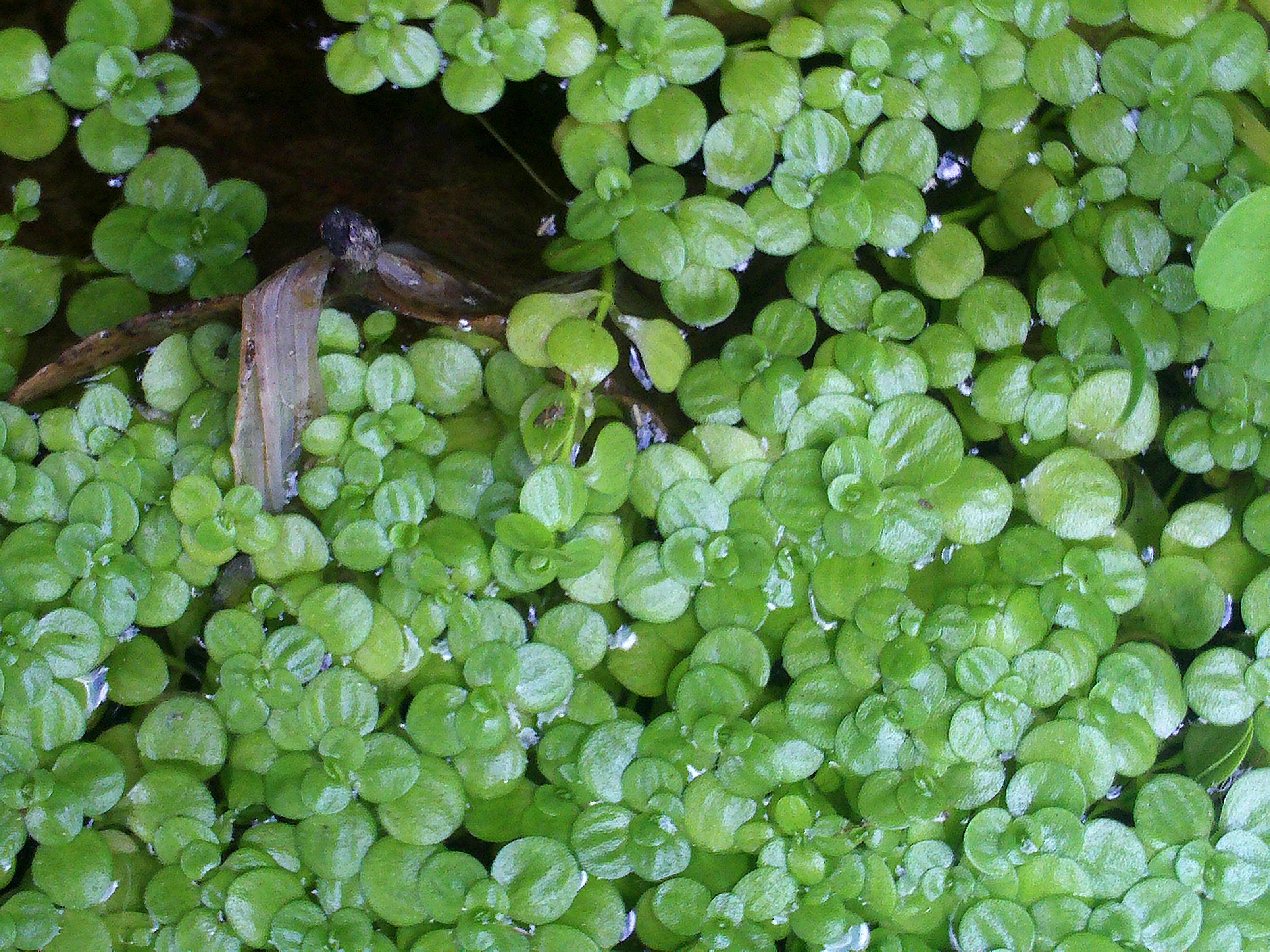 Callitriche stagnalis — San Lorenzo spring, Sierra Madrona, Spain.